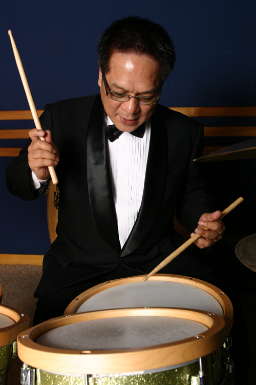 RichHuang